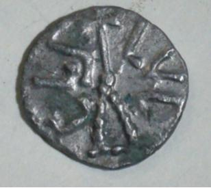 An Early Medieval coin; a base silver styca of Aethelred I, second reign (789 - 796), moneyer Cudcils, "shrine" type. See North number 184 or Abramson page 130, Sub Group 3, Series Y, number Y290. It is 14mm in diameter.